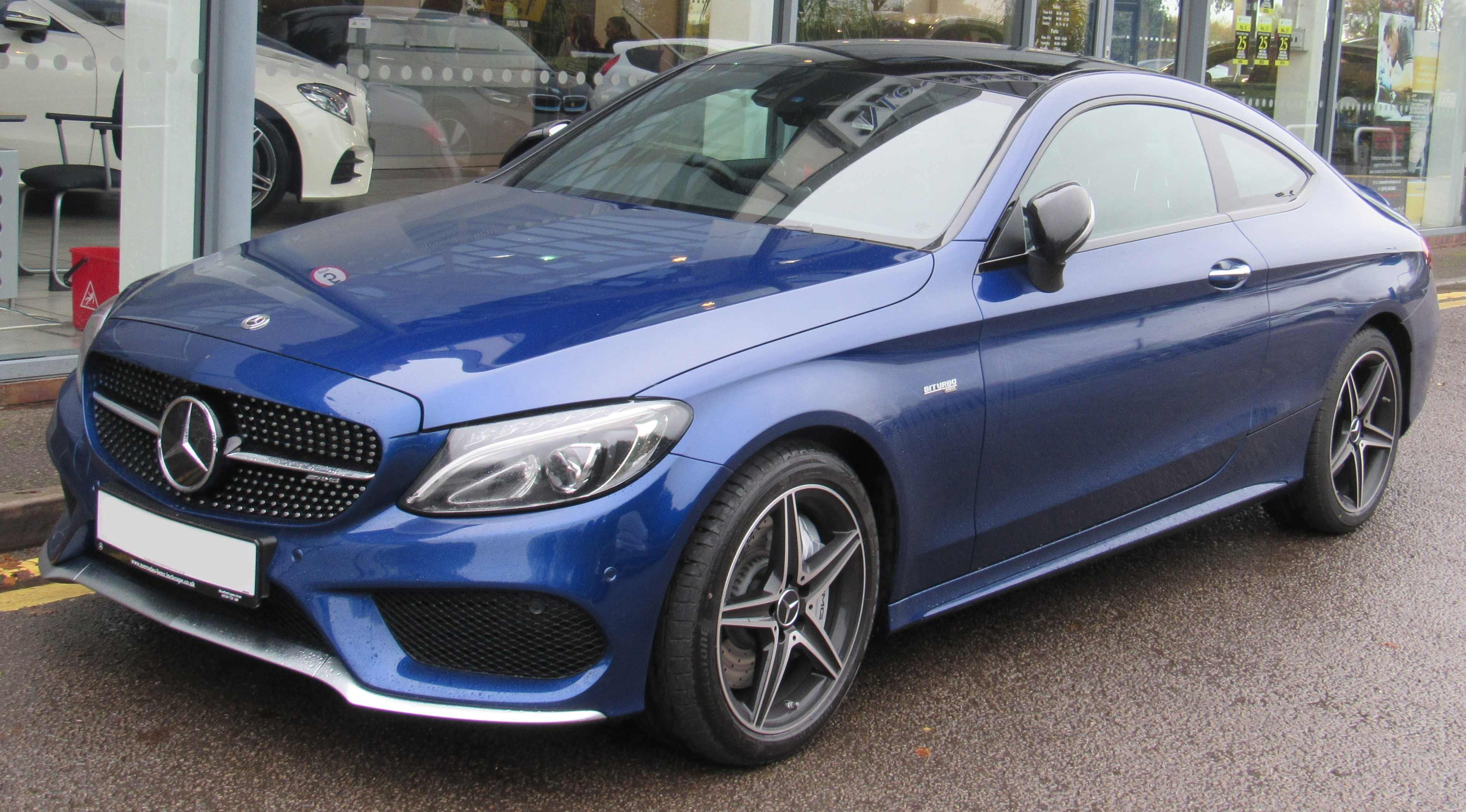 2017 Mercedes-AMG C43 Coupe Premium+ 4MATIC 3.0 Front Taken in Stratford-upon-Avon